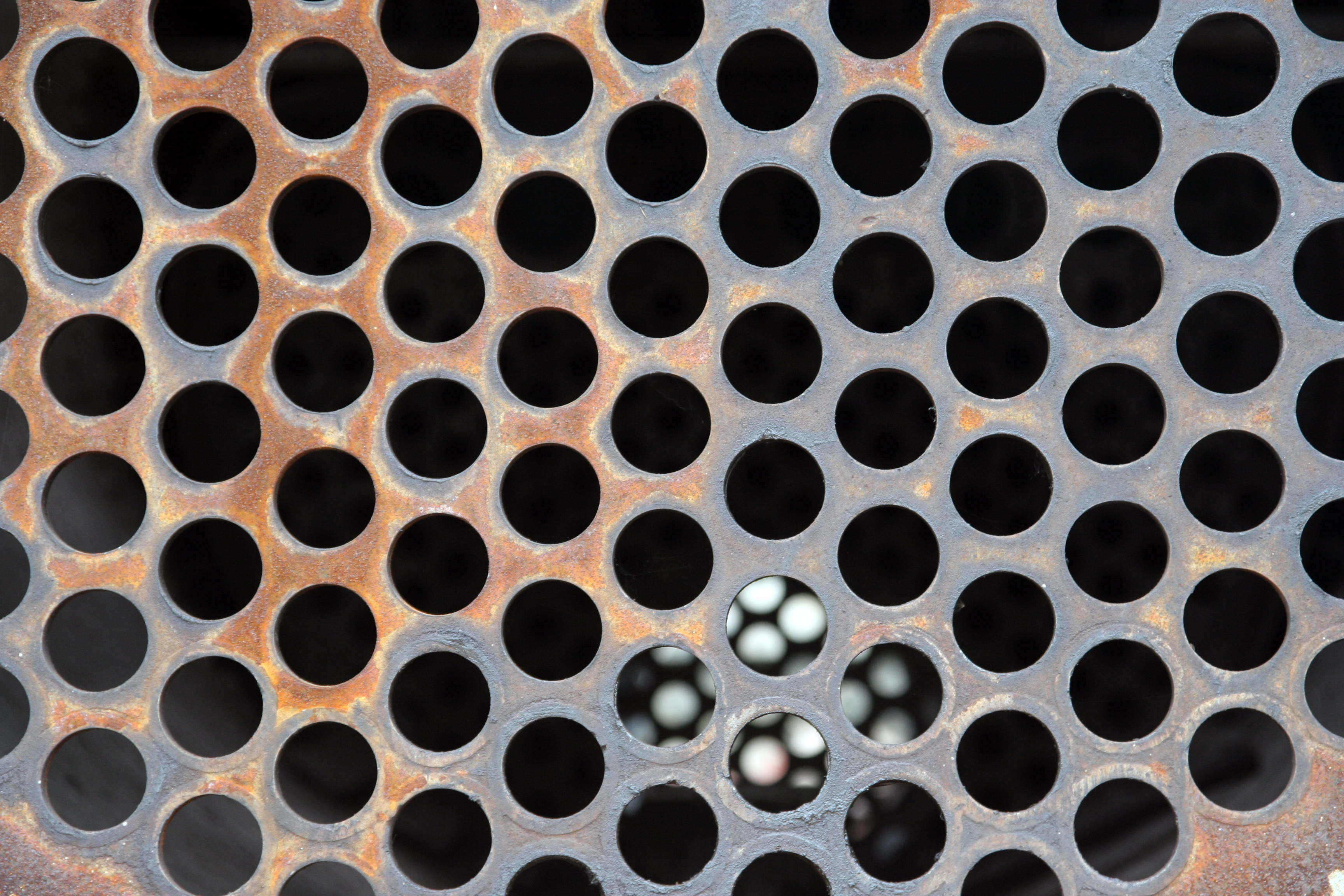 Awaiting boiler tubes